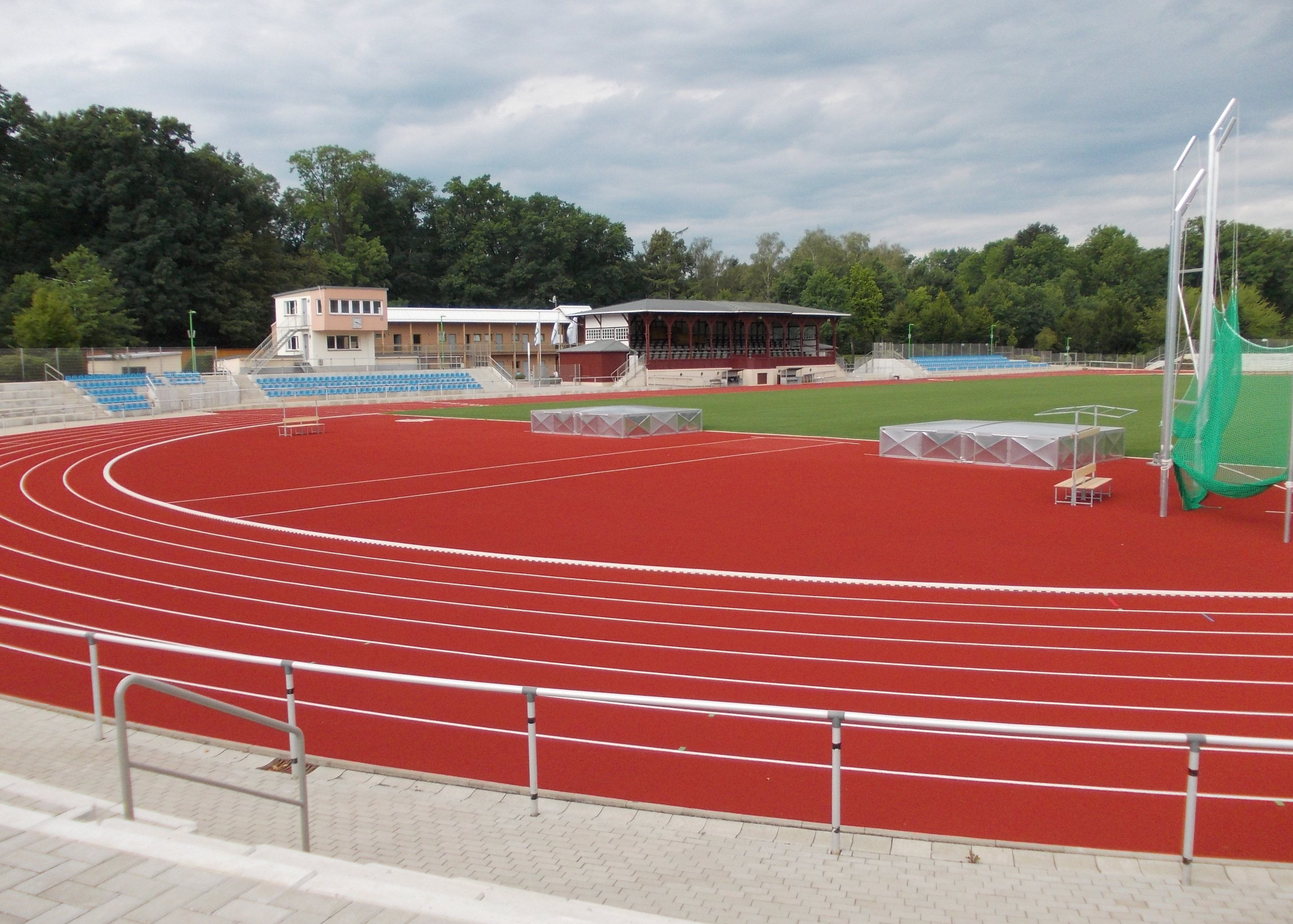 Weinau Stadium in Zittau (Görlitz district, Saxony)